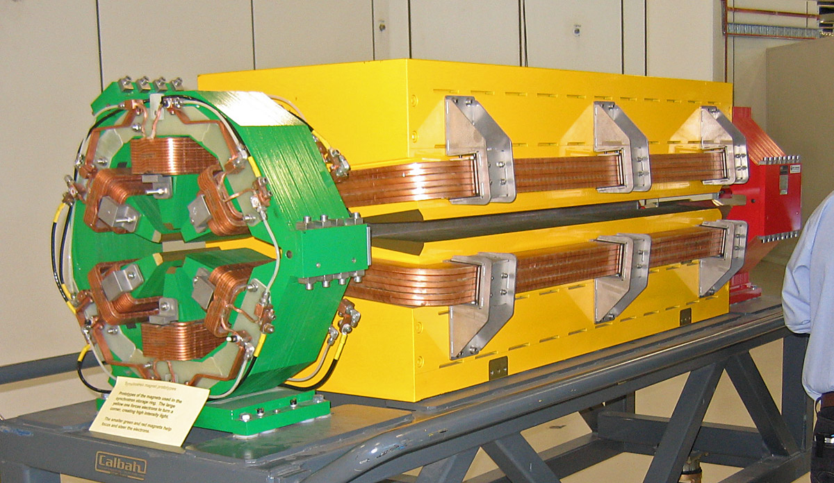 Magnets as used within the storage ring at the Australian Synchrotron, Clayton, Victoria. The larger yellow one is a dipole bending magnet, used to bend the electron beam and produce the synchrotron light. The green one is a sextupole magnet, the red one (at back) a quadrupole magnet - these are used mainly to focus the electron beam.